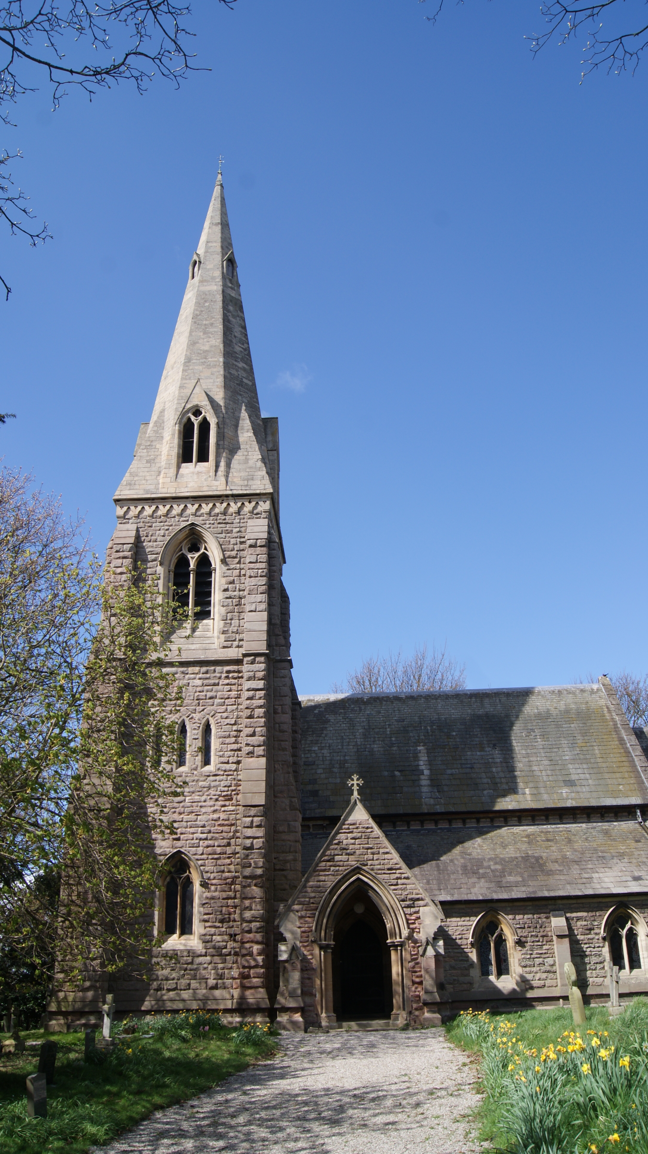 St John the Baptist Church, Hunsingore, North Yorkshire. Taken on the afternoon of Friday the 26th of April 2013.